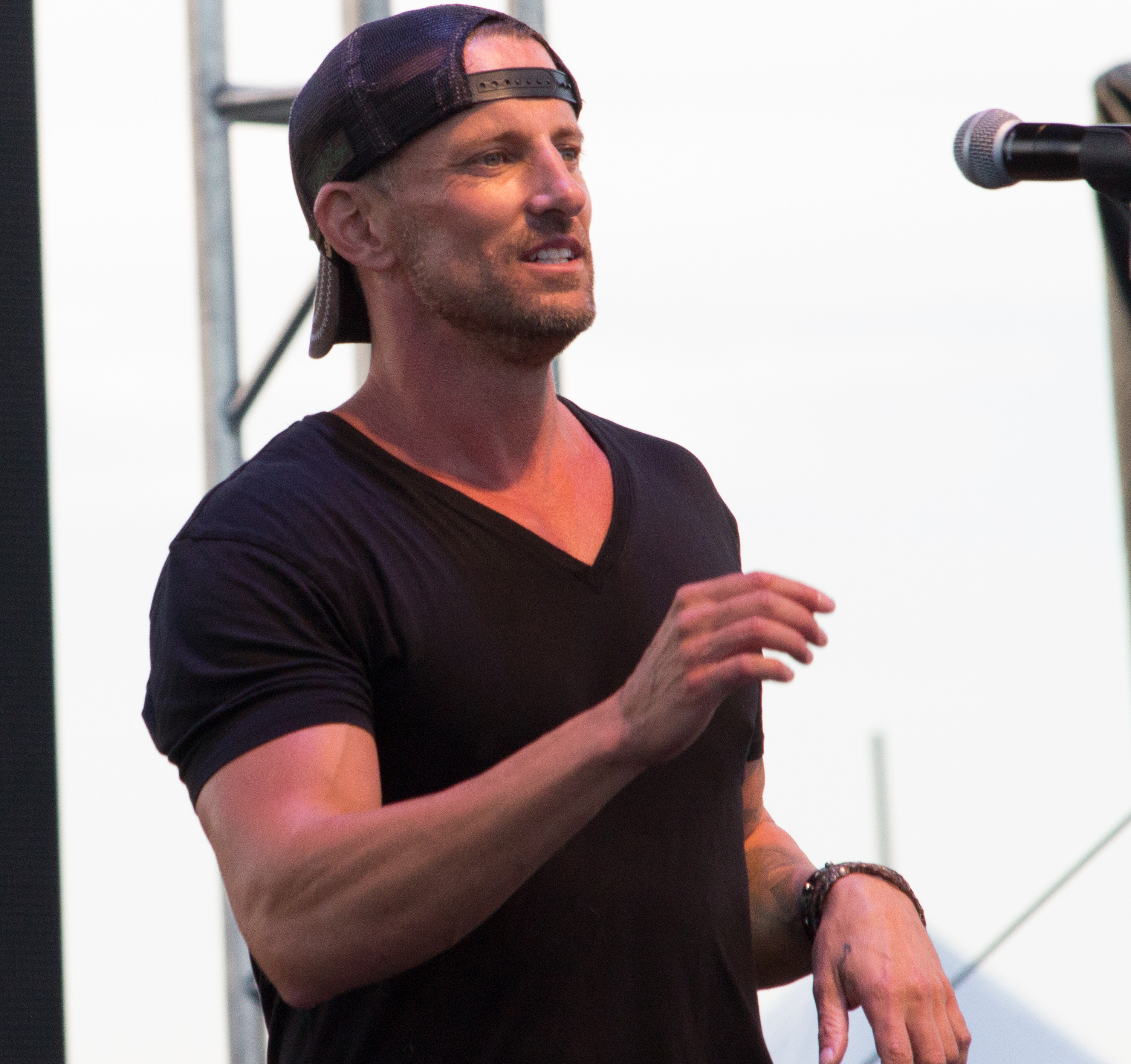 Powter performing at the Festival of Friends in 2013